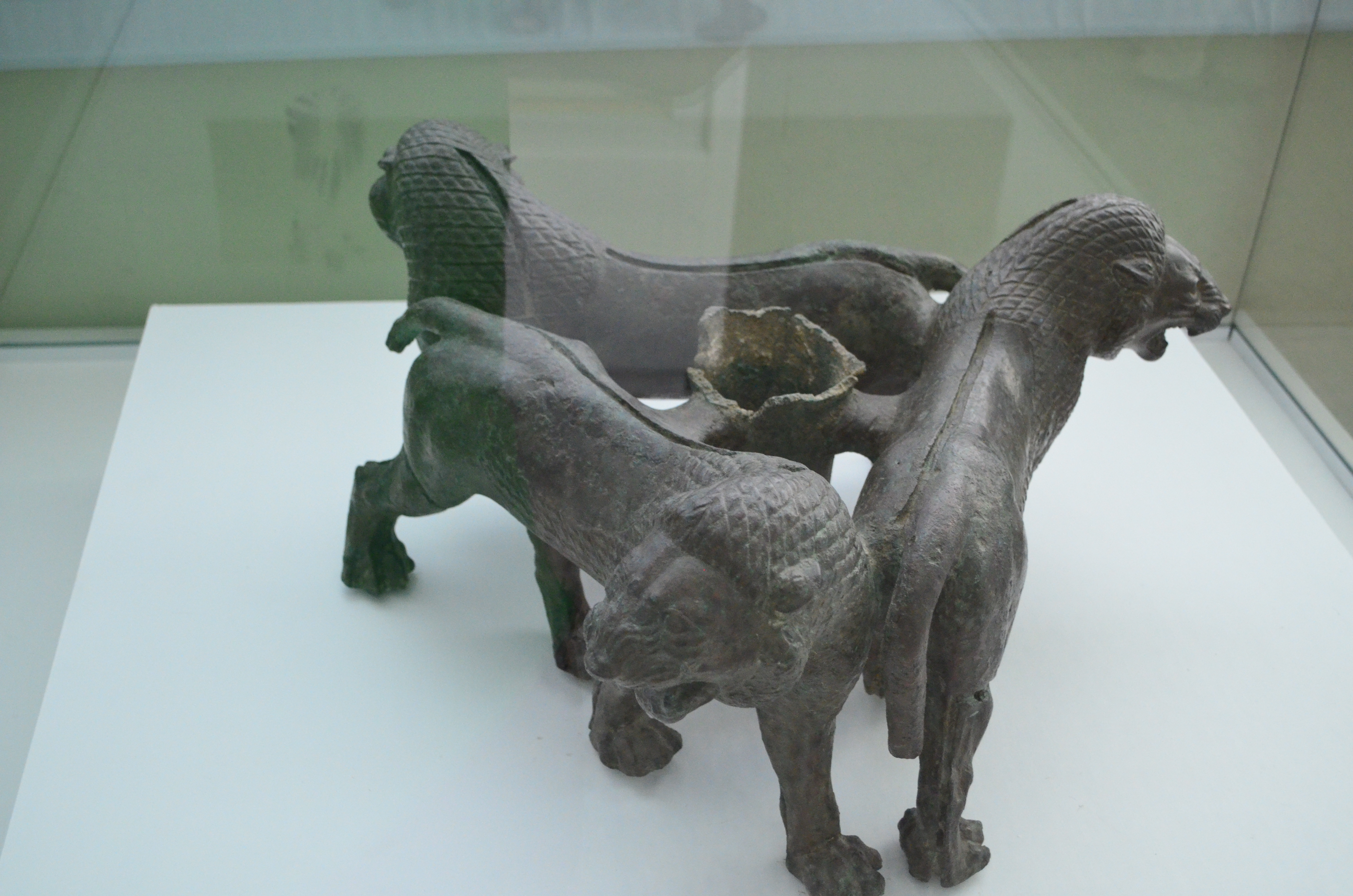 National Museum of Iran